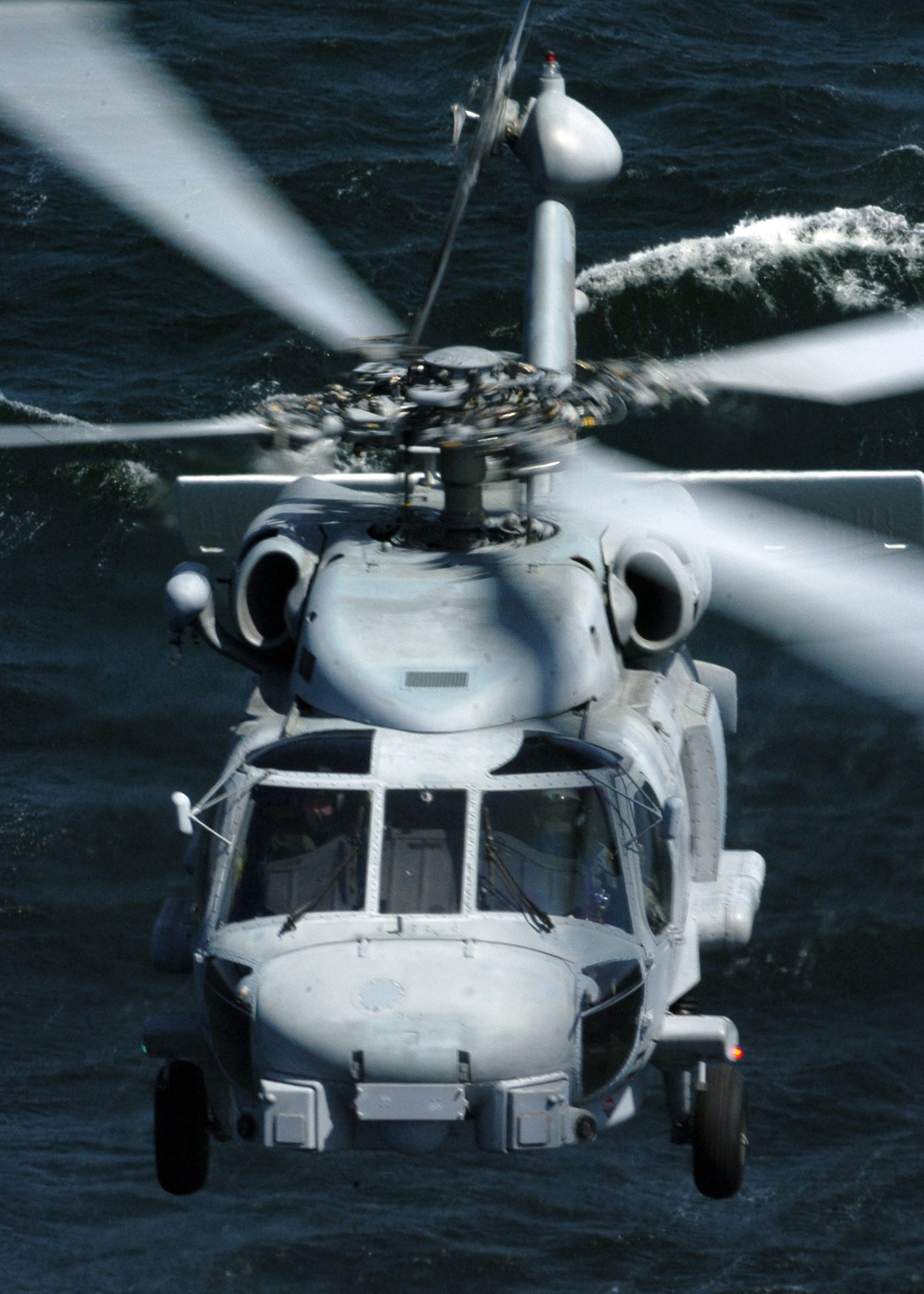 An MH-60R Seahawk helicopter assigned to the "Seahawks" of Helicopter Maritime Strike Squadron Four One (HSM-41) conducts a routine flight off the coast of San Diego. HSM-41, formerly Helicopter Anti-Submarine Squadron Light Forty One (HSL-41), is currently the West Coast Fleet Replacement Squadron (FRS) conducting the transition from legacy SH-60B aircraft to the MH-60R type-model-series